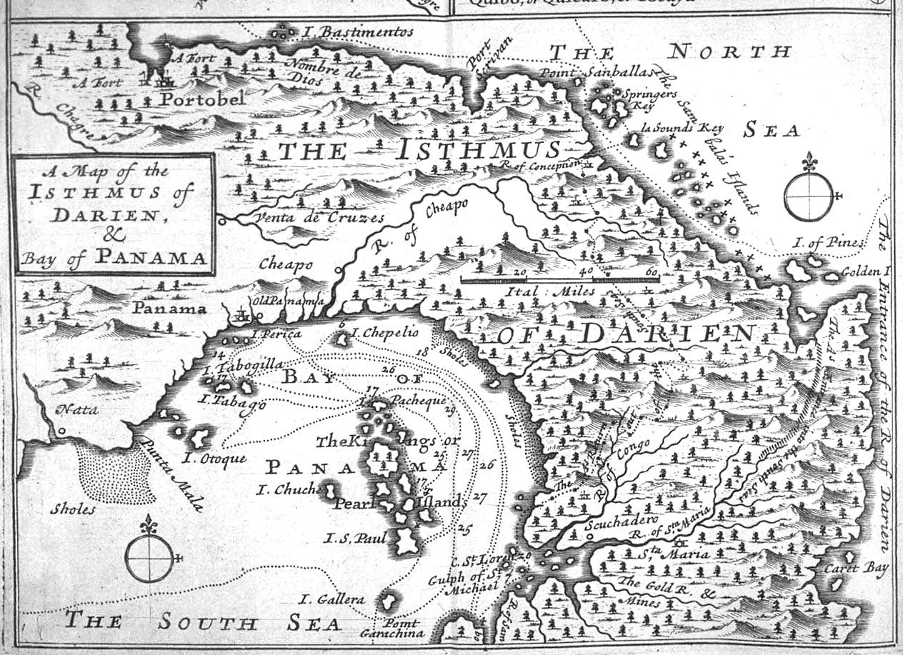 Map of the Isthmus of Darien and Panama by Herman Moll